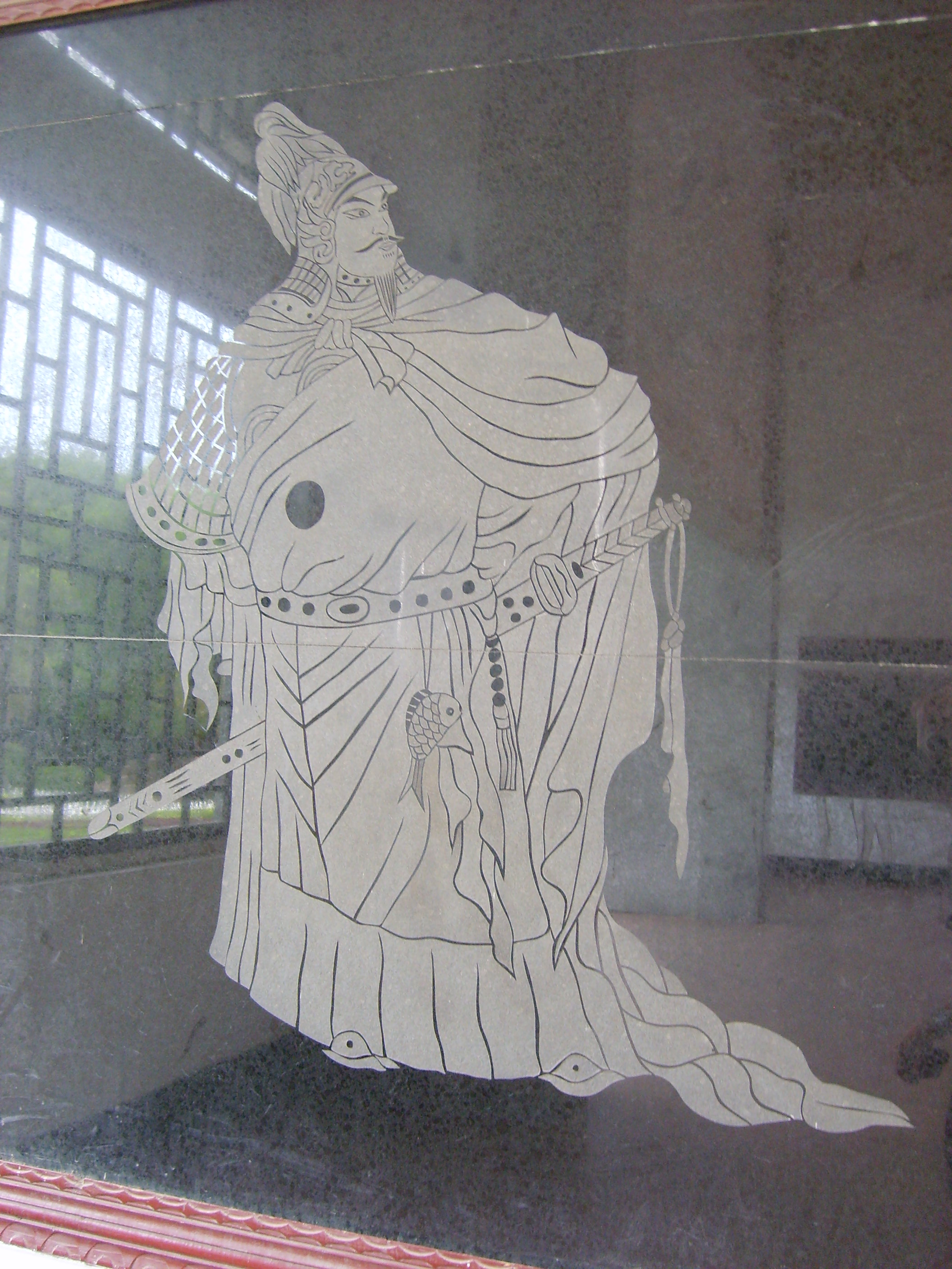 Image of Chen YuanGuang at Jiulong park at Zhangzhou, Fujian